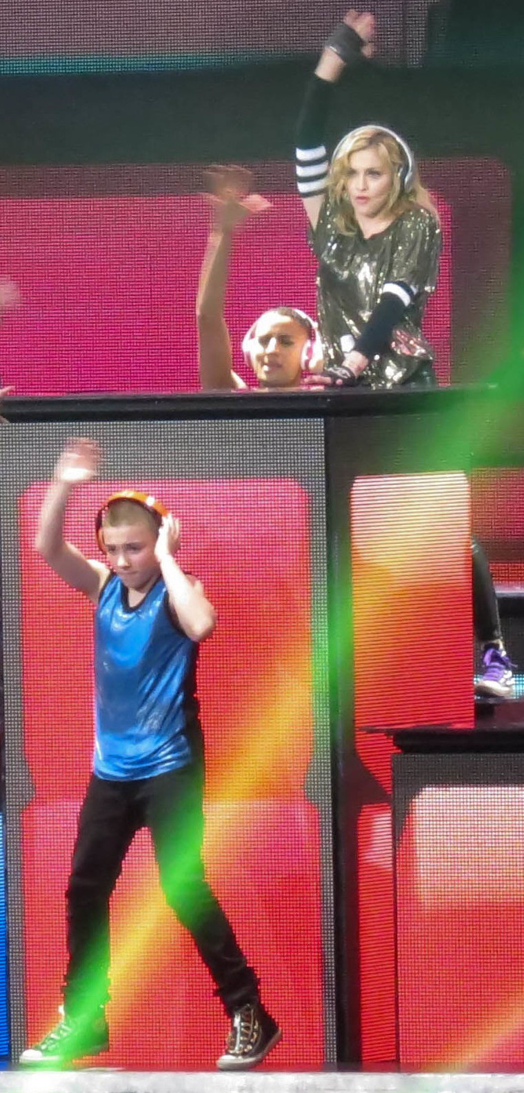 Madonna concert in Seattle. Also present is her son Rocco Ritchie (front).